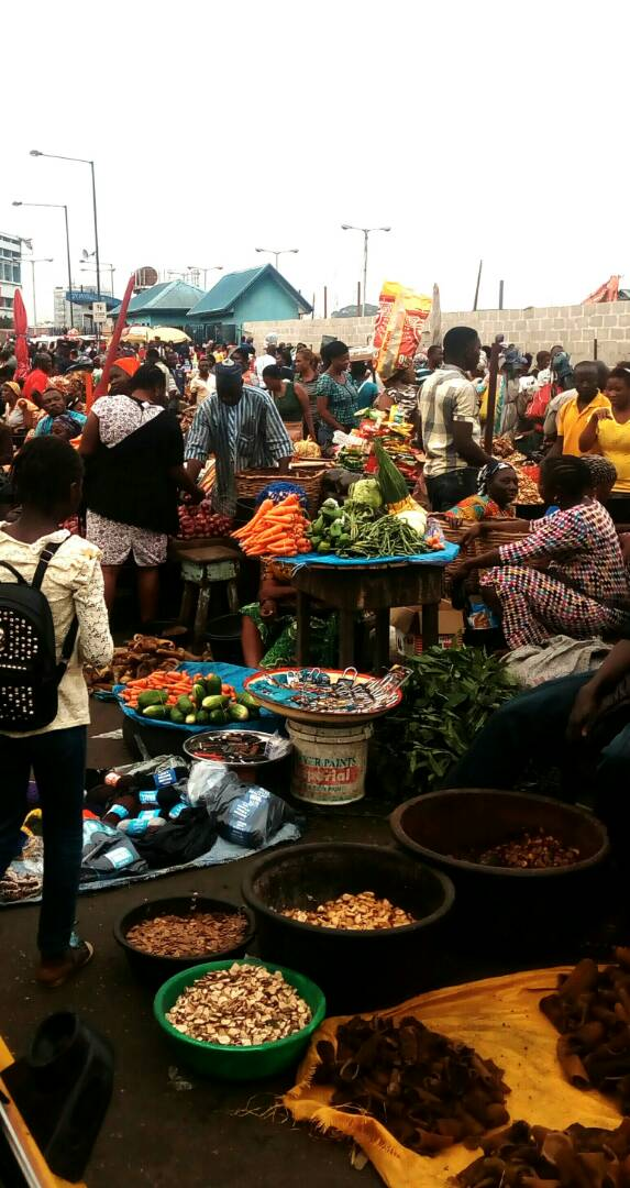 This is an image of "African people at work" from Nigeria